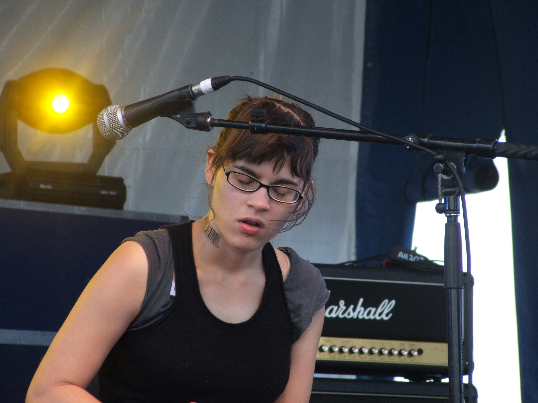 Shot of Kaki King while playing at The Great Escape festival in Sydney, Australia at Easter 2007 Uploaded from the english Wikipedia. original is/was : here Primary uploader : Stiiky